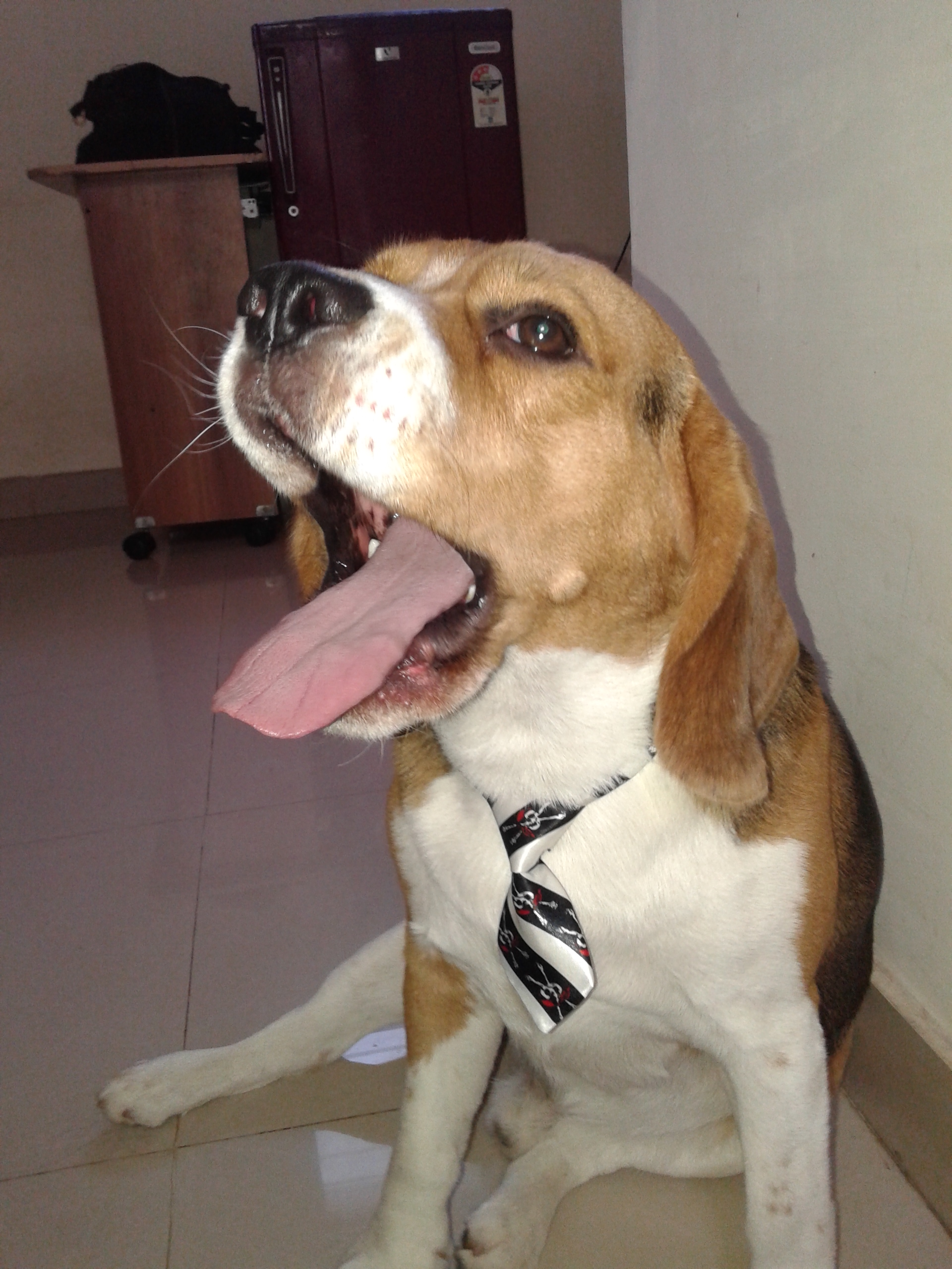 Yawning is a Calming Signal